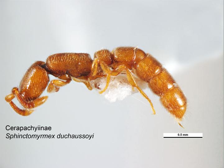 Sphinctomyrmex duchaussoyi